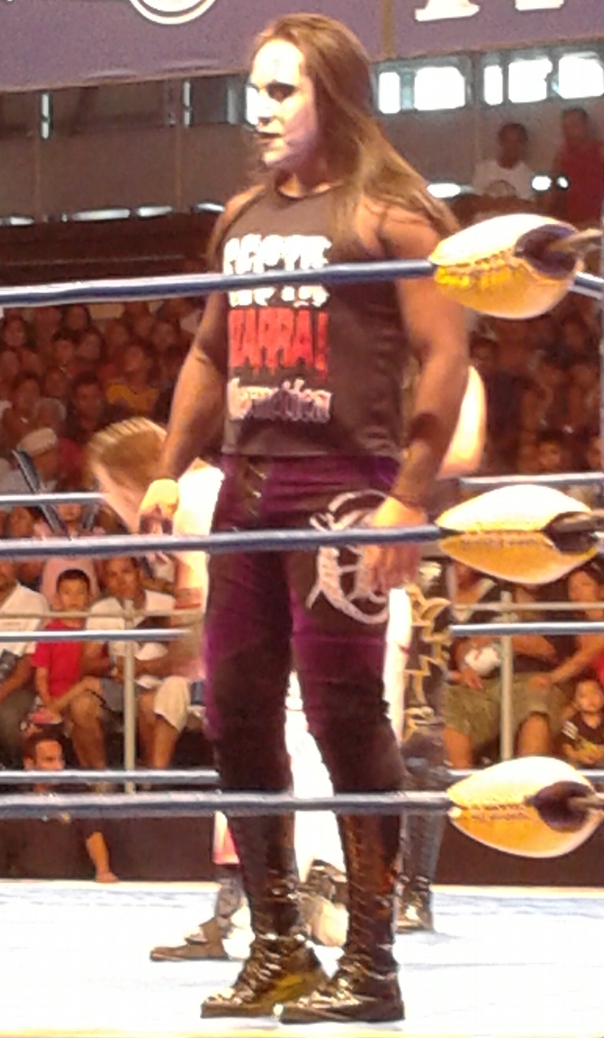 Dark Cuervo during the 2012 ¿Quién Pinta para la Corona? held by Asistencia Asesoría y Administración on August 26, 2012 at Nave Lewis of Fundidora park in Monterrey, Nuevo León, Mexico.